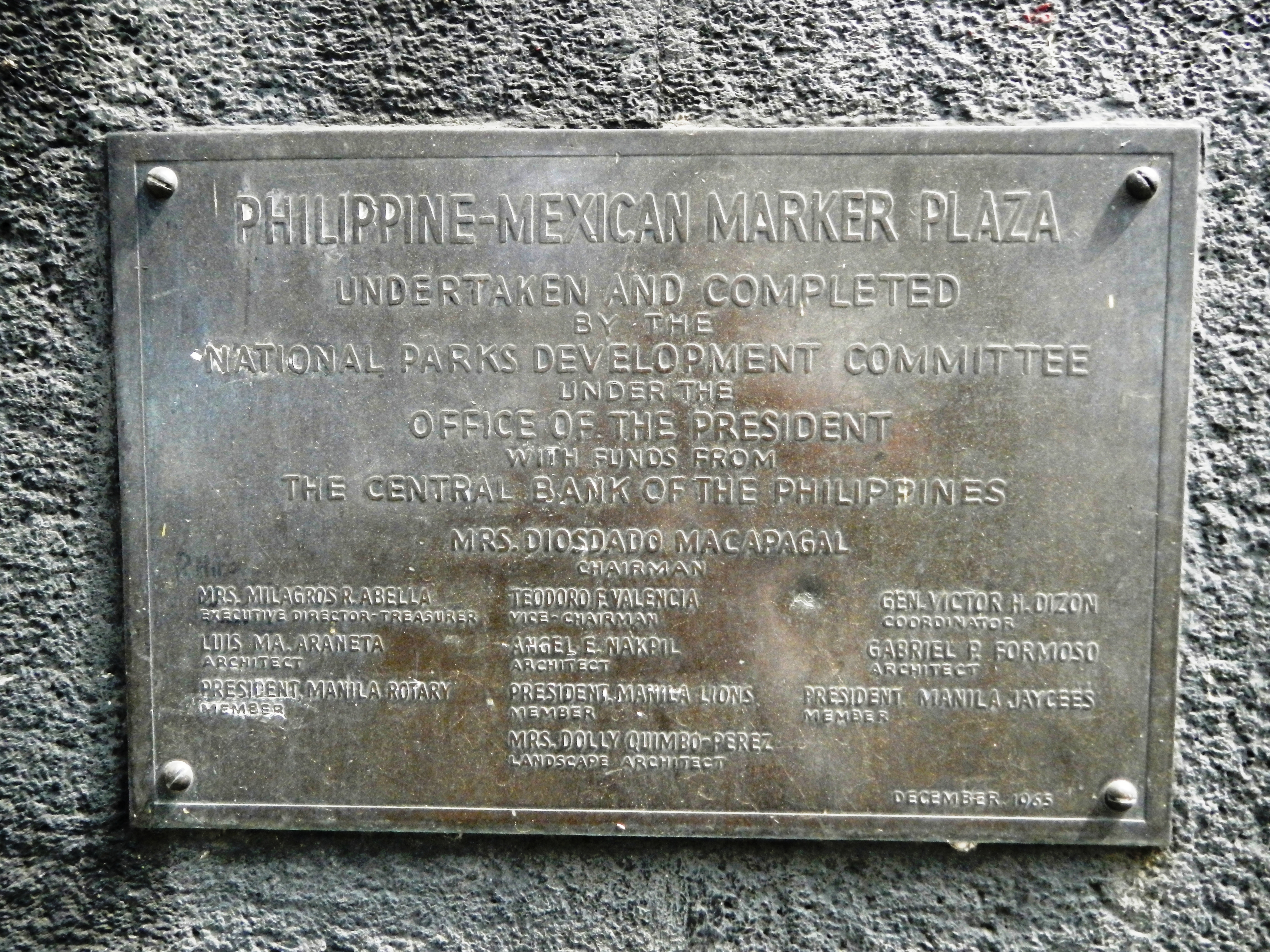 Located inside the walls of Intramuros, Manila, Plaza Mexico is an area near Aduana and the Pasig River with view of Santa Cruz Bridge, Santa Cruz, Manila and Escolta Street commemorates the historic galleon trade of Mexico and the Philippines along with the 400 years of maritime expedition of the country Fraternidad Ibero-Americana Filipina 1564-1964.